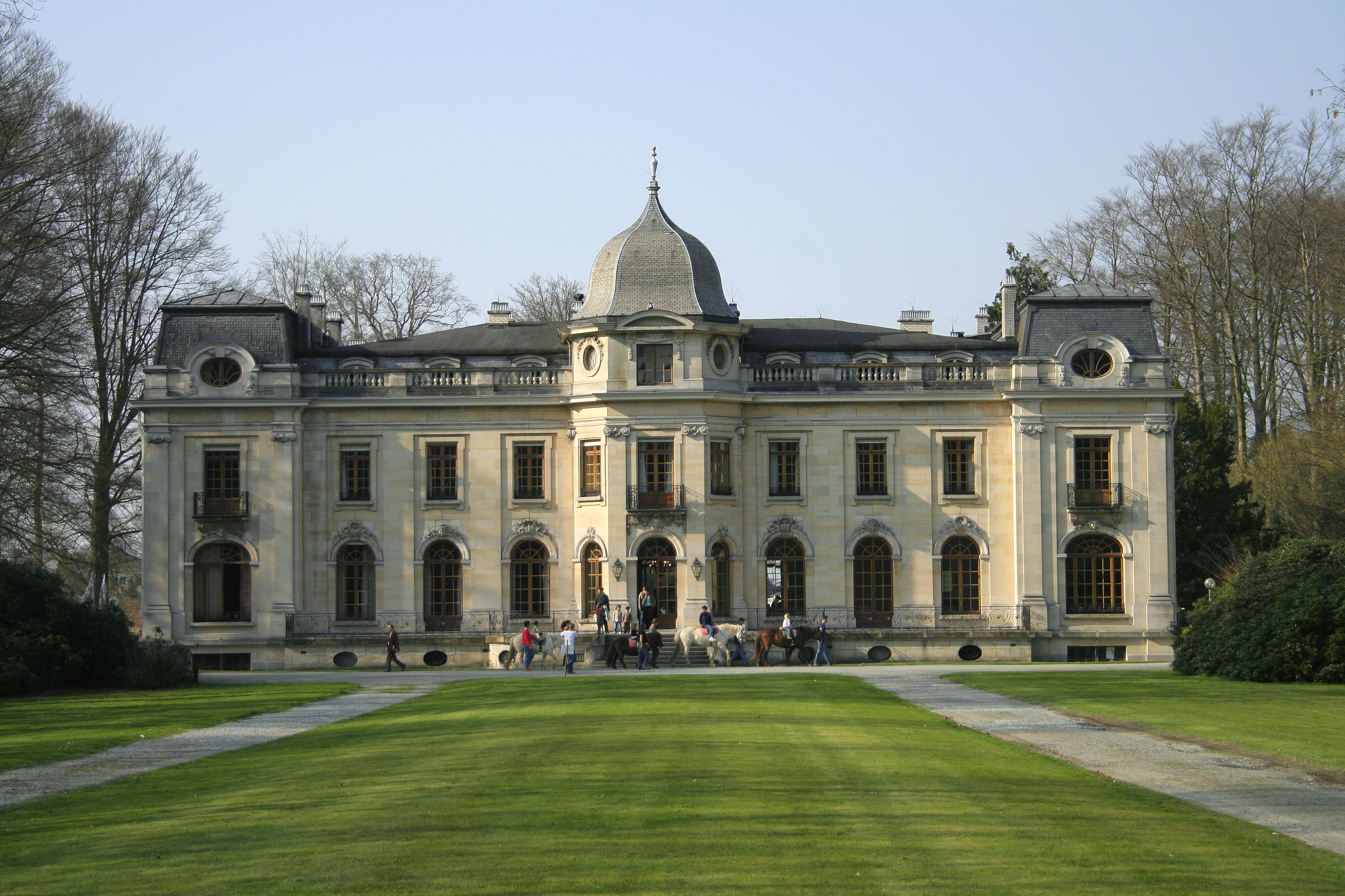 Enghien (Belgium), the château 'Empain' (1913).